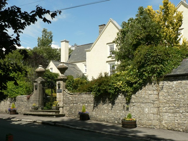 Llanmaes House, Llanmaes.